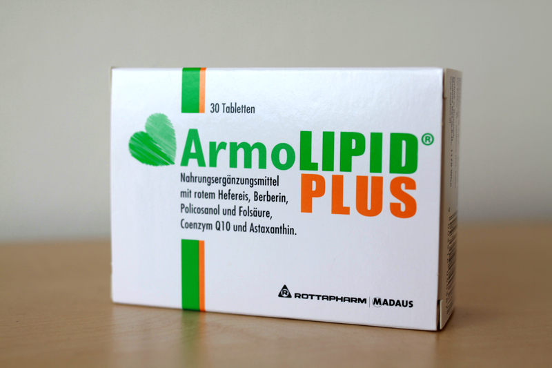 Armolipid Plus- food supplement